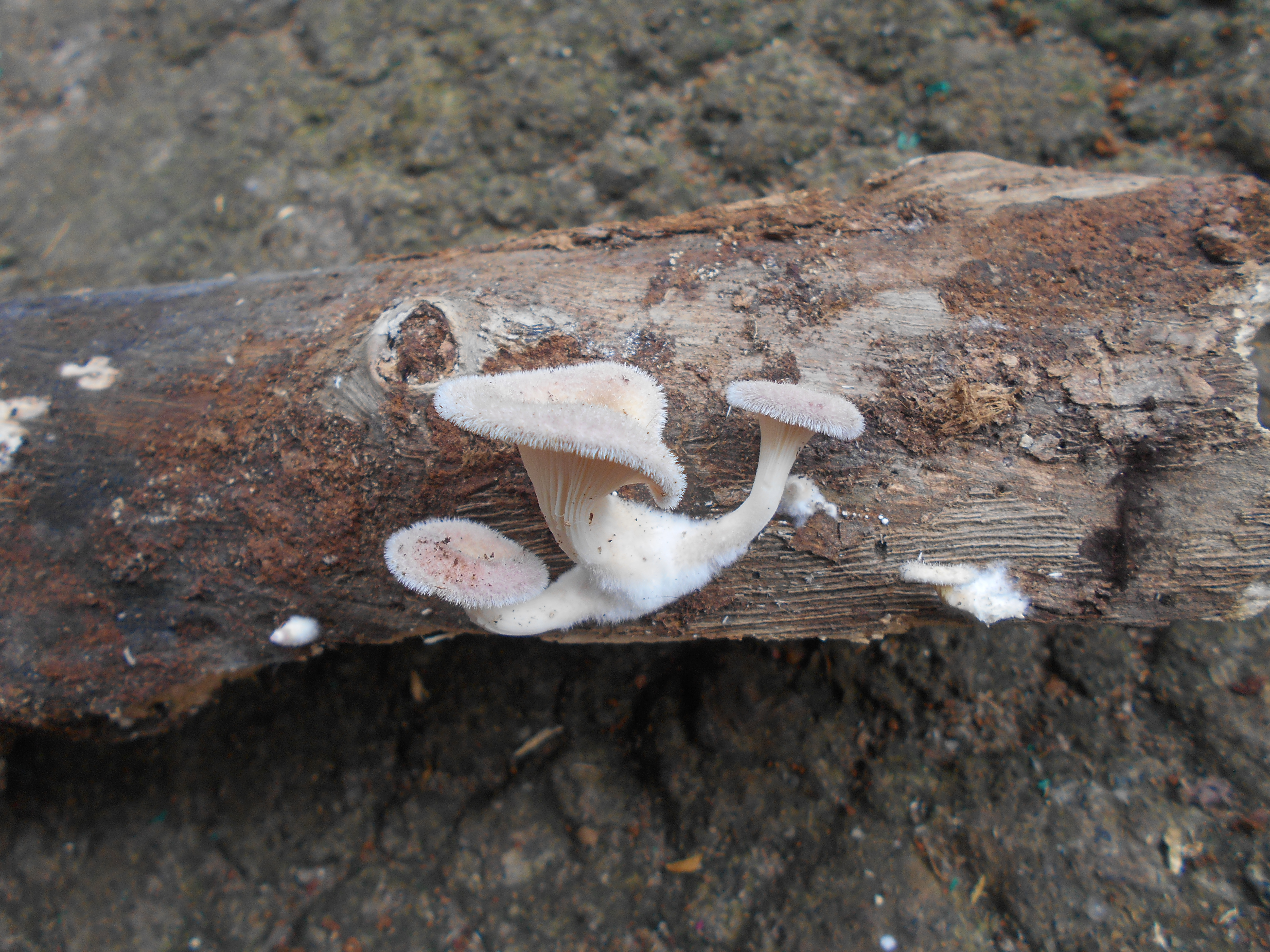 mashroom